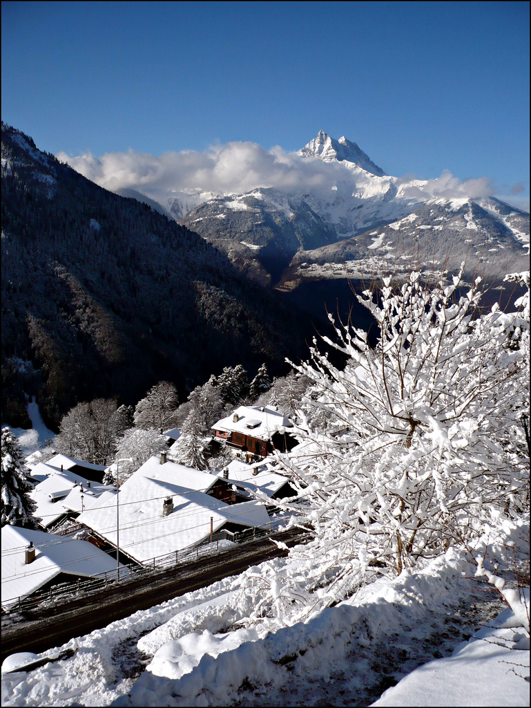 A snapshot of the view from my bed whilst staying in Chalet Martin, Gryon, Switzerland.